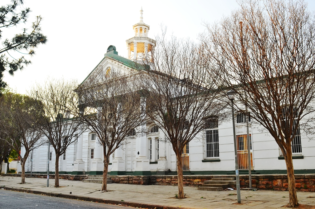 The old Government Building at Boksburg is situated in Church Street near the station and the well-known Boksburg Lake. The building was designed in1889, two years after the establishment of the town of Boksburg by Sytze Wierda, the "Goverenements Ingenieur en Architect" of the South African Republic, to accommodate the mining commissioner, the post office and other government offices. On 15th October, 1890, the corner stone was laid by the Head of Mining, C.J. Joubert. It served as magistrate's office from 1901 to 1958.